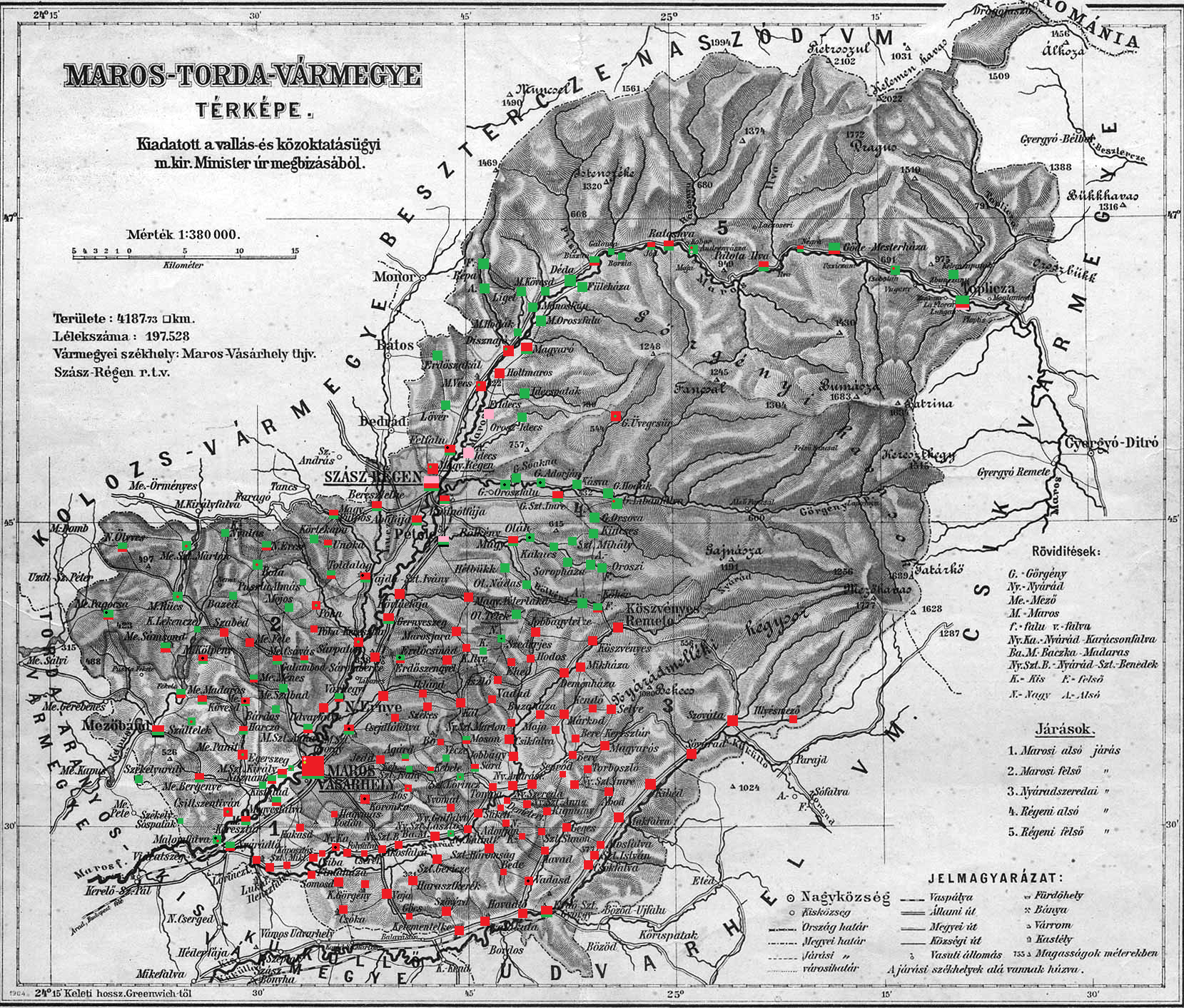 Ethnic map of the county (with data of the 1910 census). Key: red - Hungarians; dark green - Romanians; pink - Germans; black - Roma. Coloured dots in plain rectangles imply the presence of smaller minority populations (generally more than 100 people or 10%). Multicoloured rectangles imply cities and villages with multi-ethnic populations with the order of the stripes following the ethnic composition of the settlement.